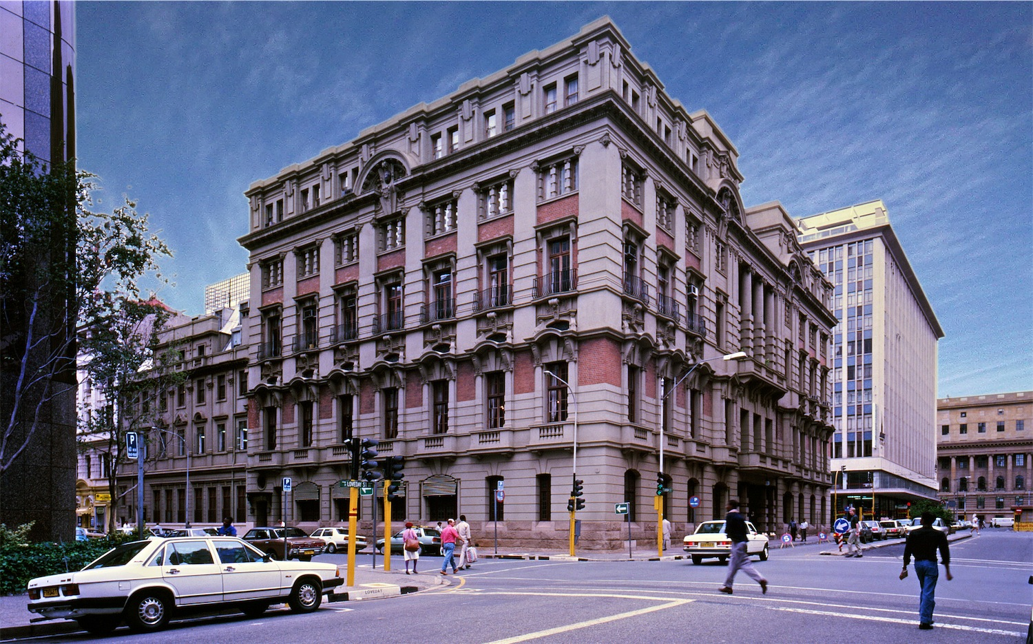 This media shows a South African Protected Site with SAHRA file reference 000000000.